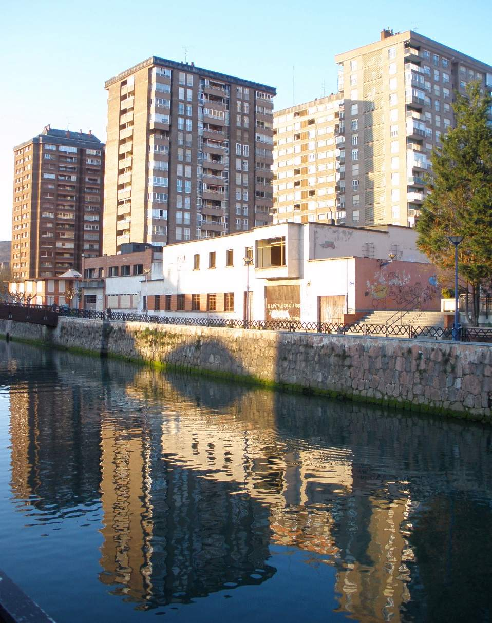 Río Oyarzun a su paso por Rentería (Guipúzcoa)